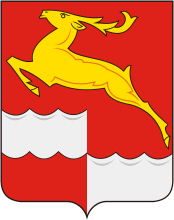 Kezhemsky rayon (Krasnoyarsk krai), coat of arms